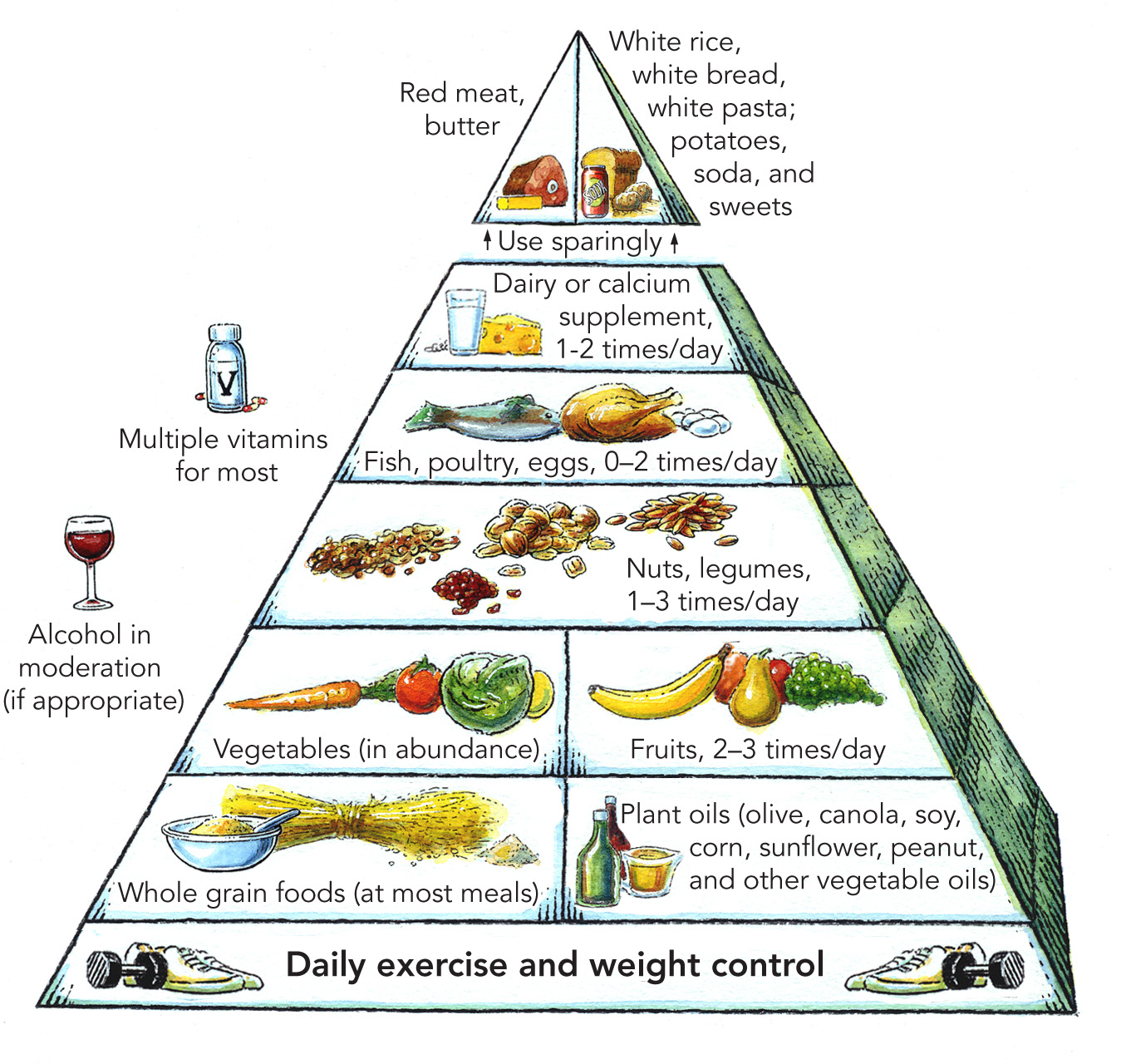 Harvard food pyramid for the Mediterranean Diet.